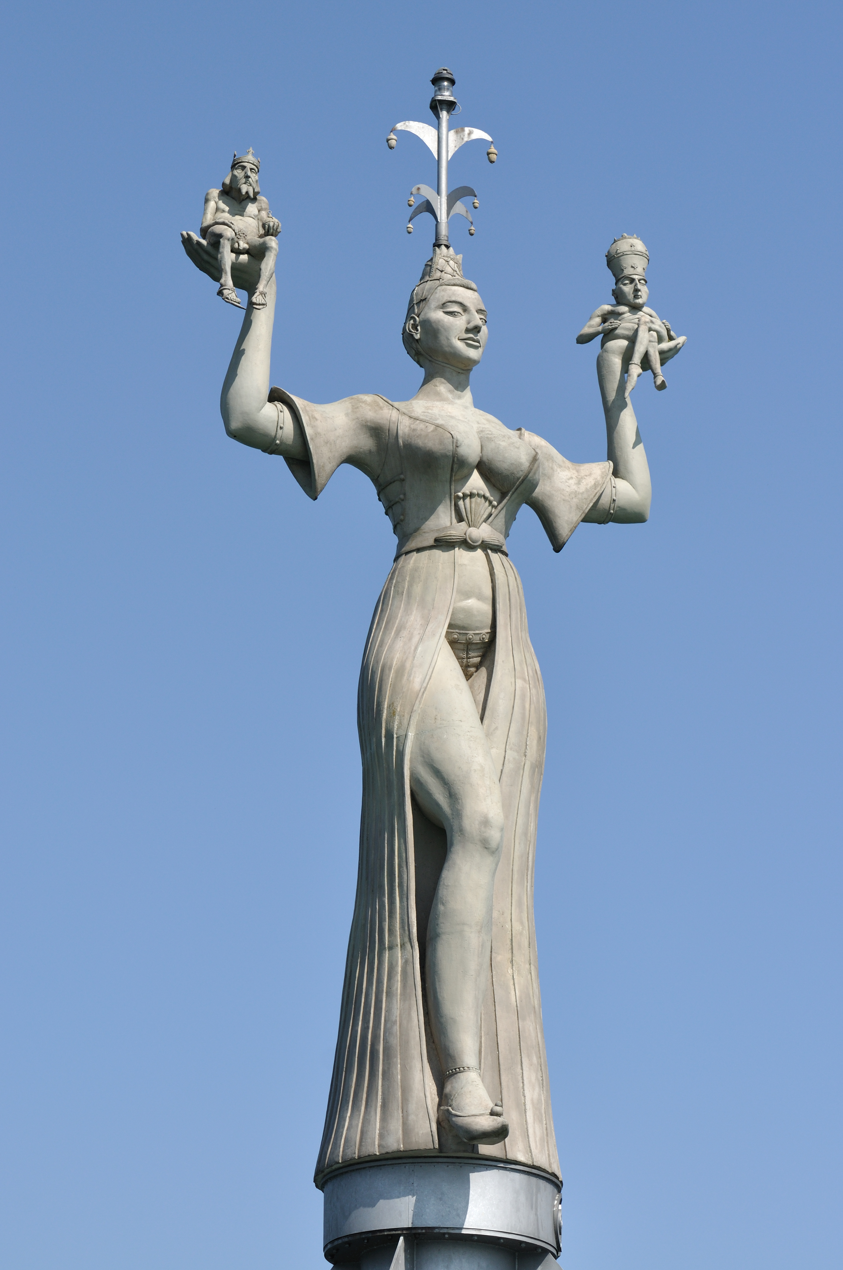 Rotating statue of Imperia in the harbour of Constance, created by the artist Peter Lenk, Baden Wurttemberg, Germany